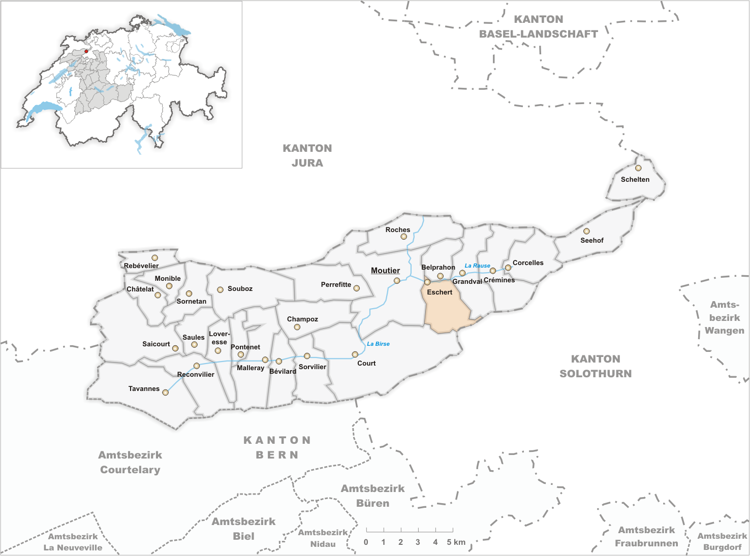 Municipality Eschert